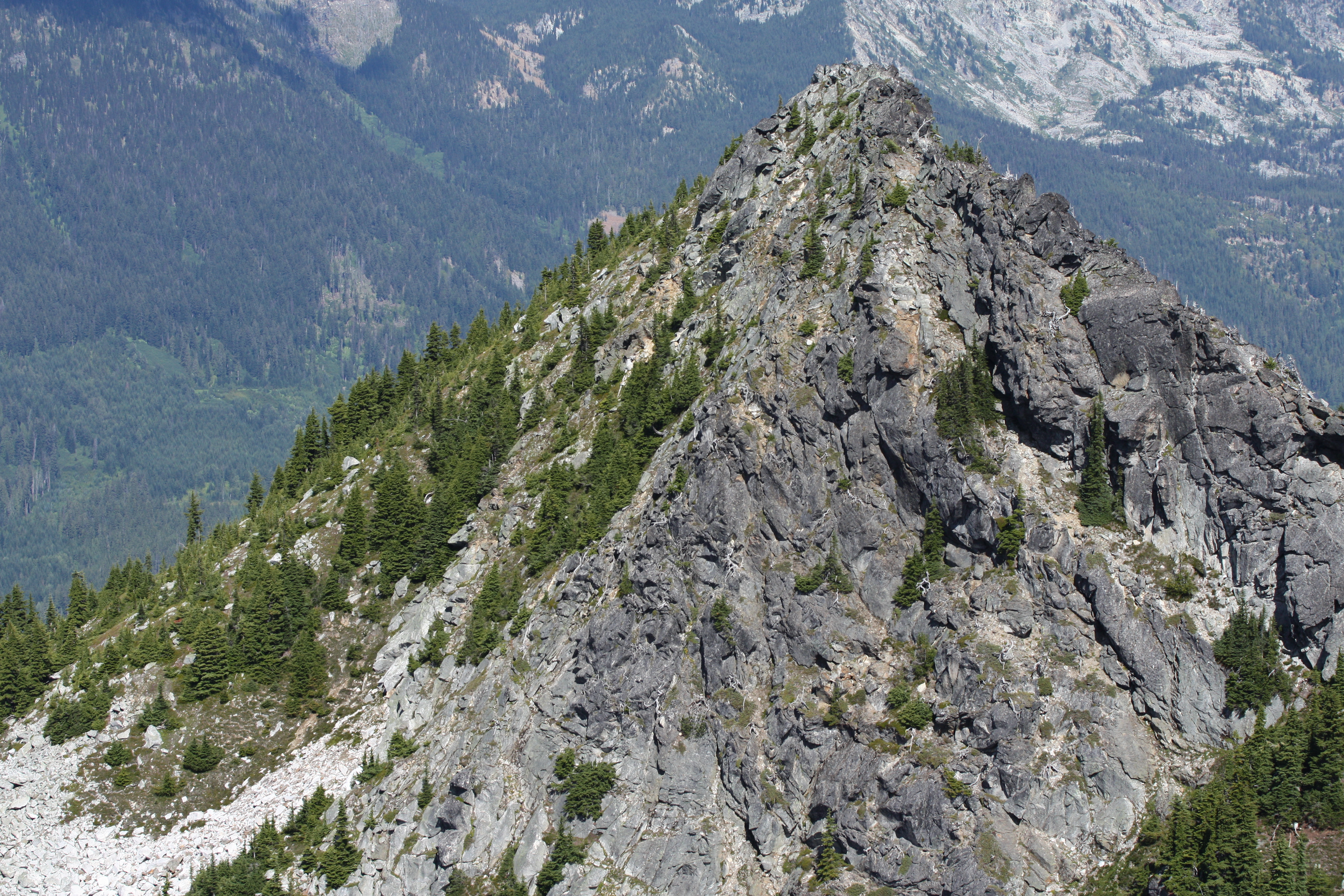 Labyrinth Mountain (Northeast Peak, 6287 feet)